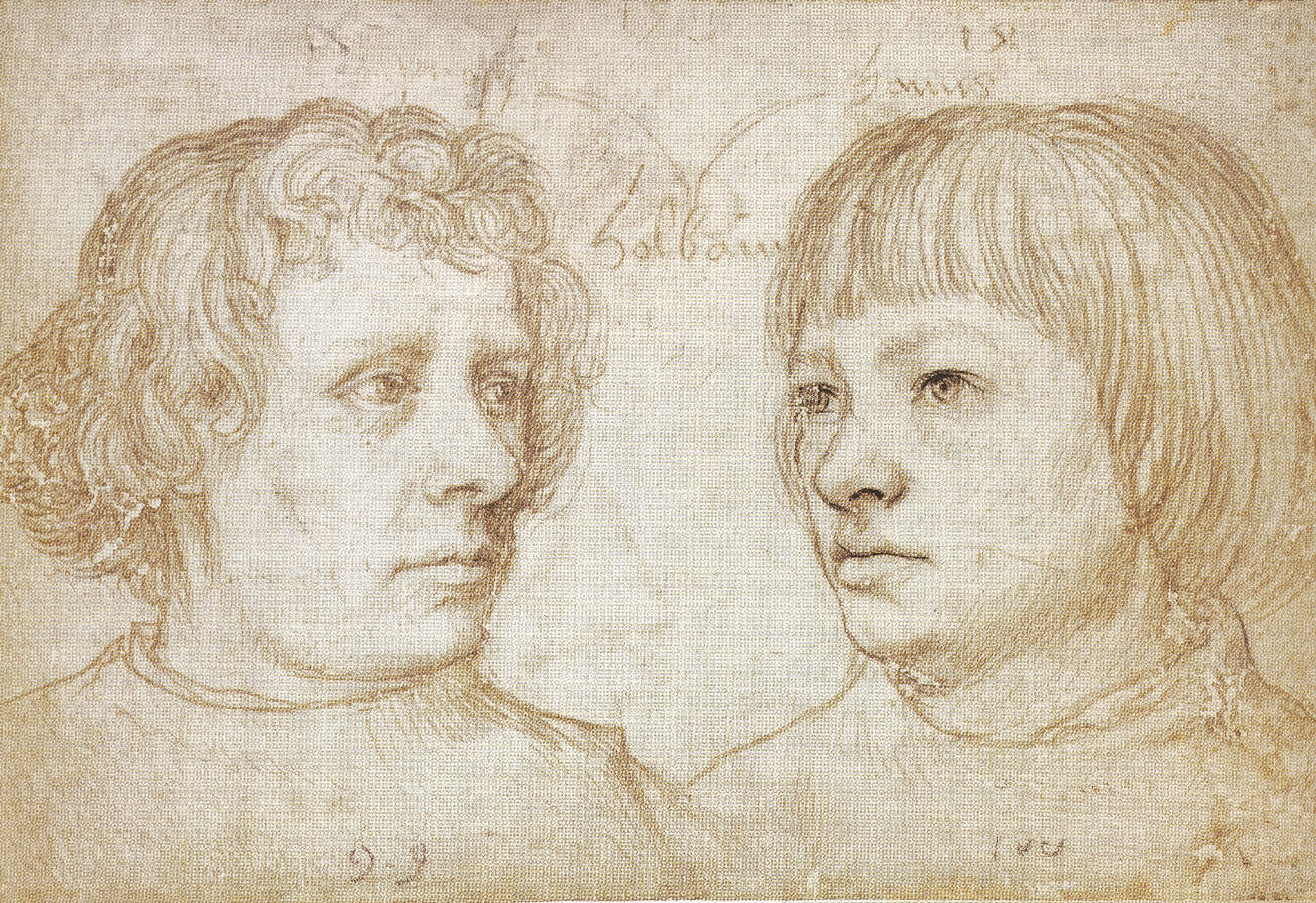 Silverpoint on white-coated paper, 10.3 × 15.5 cm, Berlin State Museums. The names "Prosy" (left) and "Hans" (right) are written over the heads of the boys. According to art historian Stephanie Buck: "The hand-written notes make this silverpoint drawing one of the most personal documents of an artist's family of the early modern era. The sheet probably comes from a sketchbook in which various portraits were kept." (Buck, p. 8.)